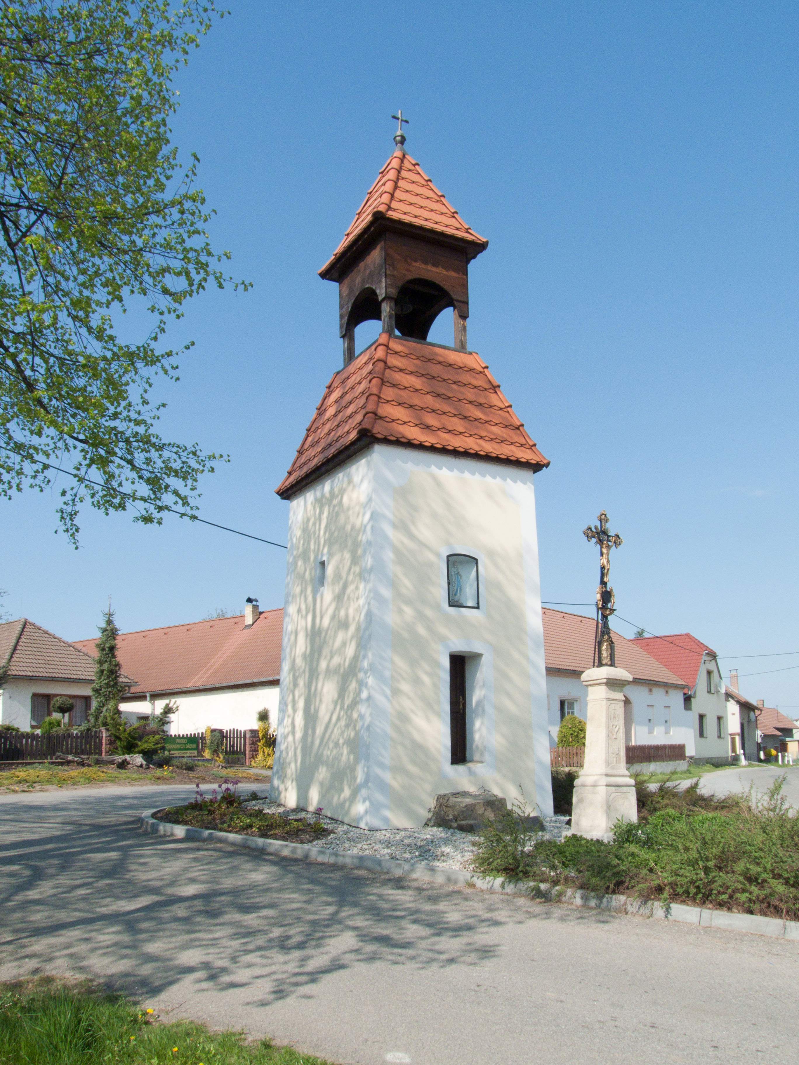 Bell tower in the village of Nebřehovice, Strakonice District, Czech Republic.